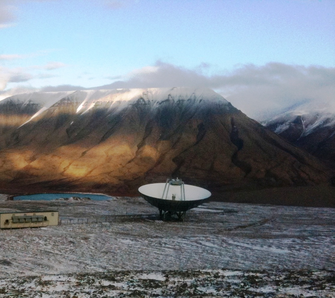 EISCAT astronomic scatter at Gruve 7 mountain, Adventdalen, Spitsbergen